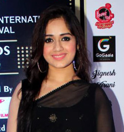 Jannat Zubair Rahmani at Dadasaheb Phalke International Film Festival Awards 2019